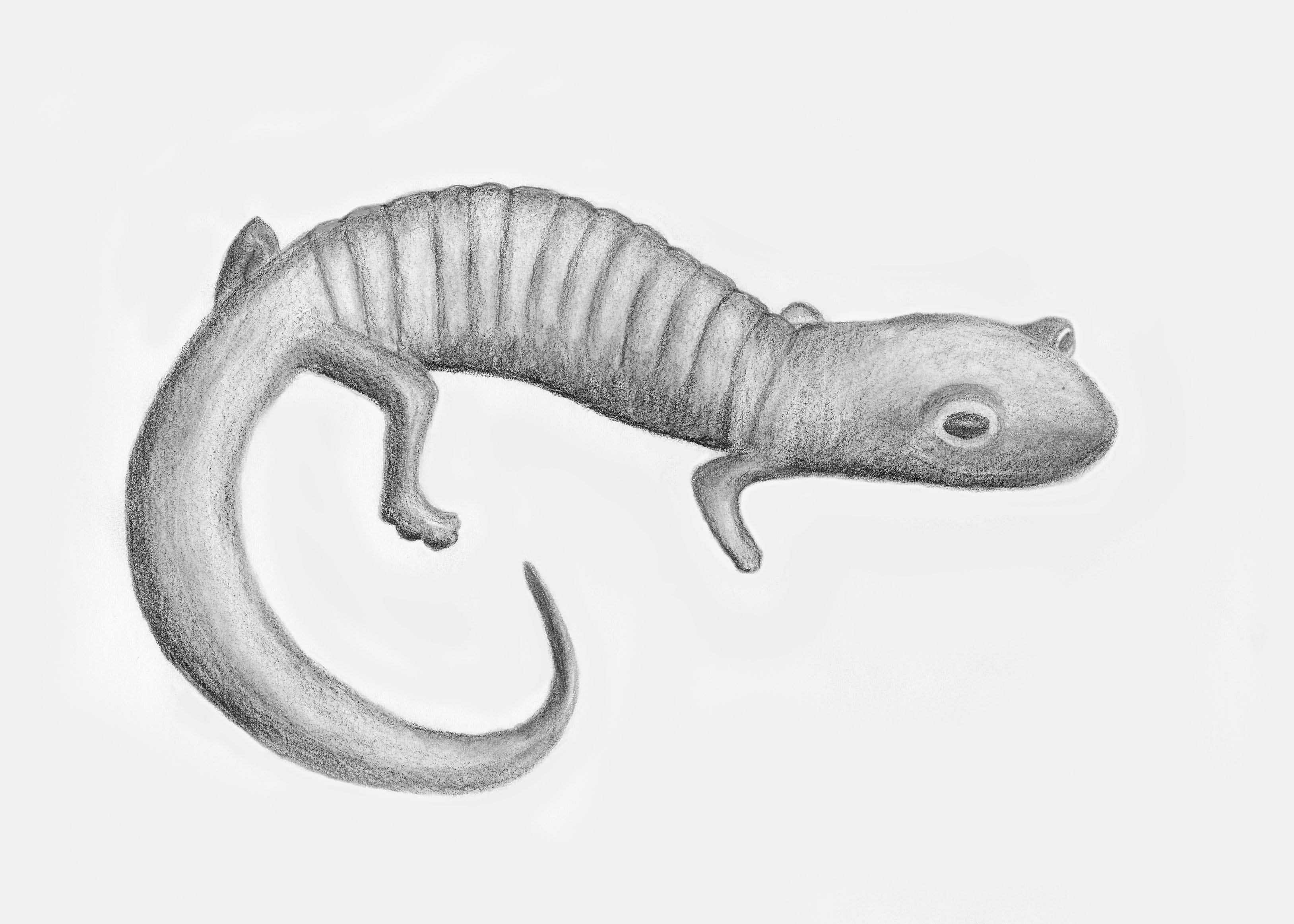 A life restoration of the extinct Palaeoplethodon salamander found trapped in fossilized amber.